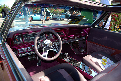 Impala Low Rider Interior